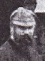 A circa 1875 photograph of Scottish golf professional George Strath.